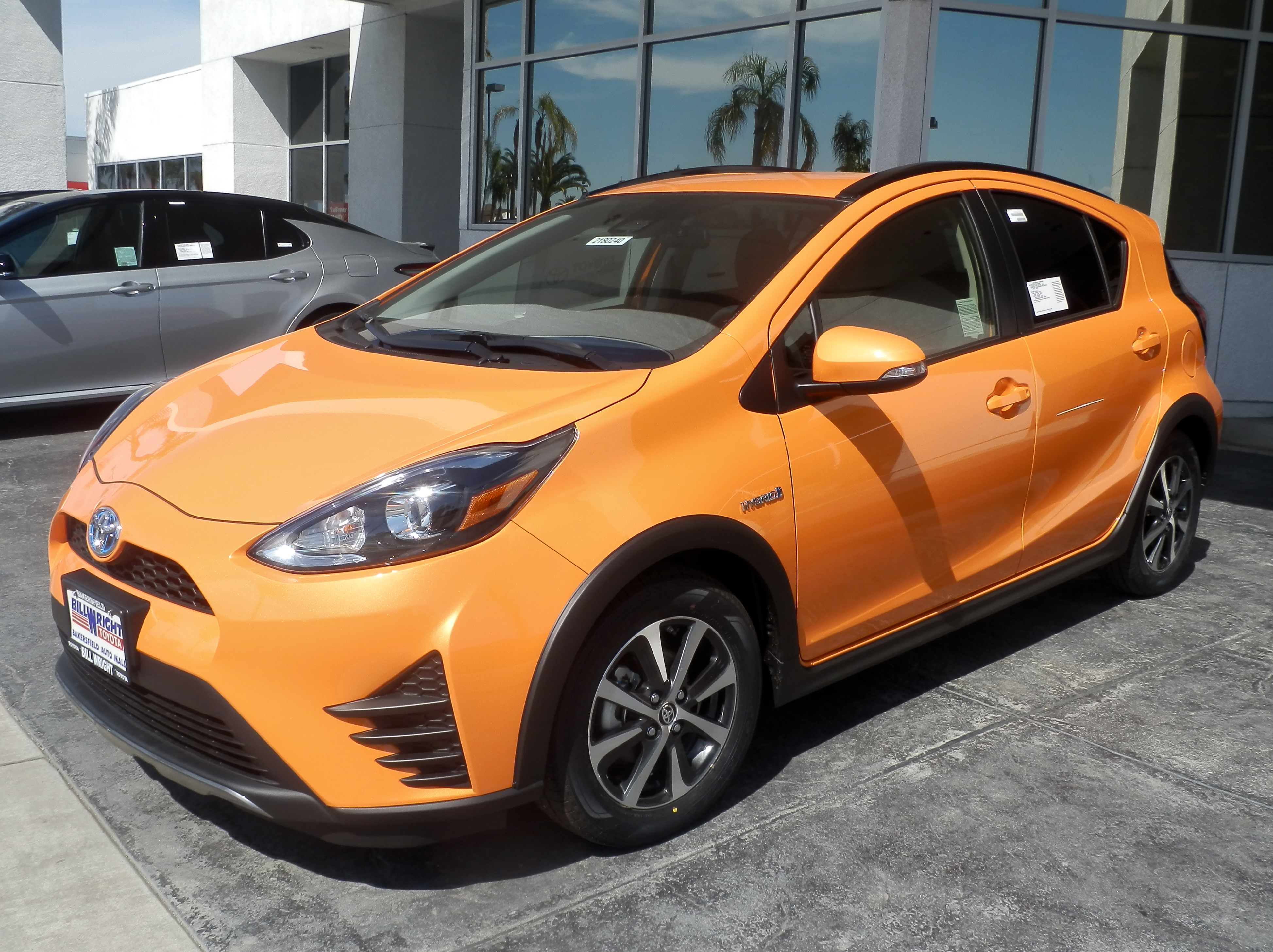 Toyota Prius c in Bakersfield